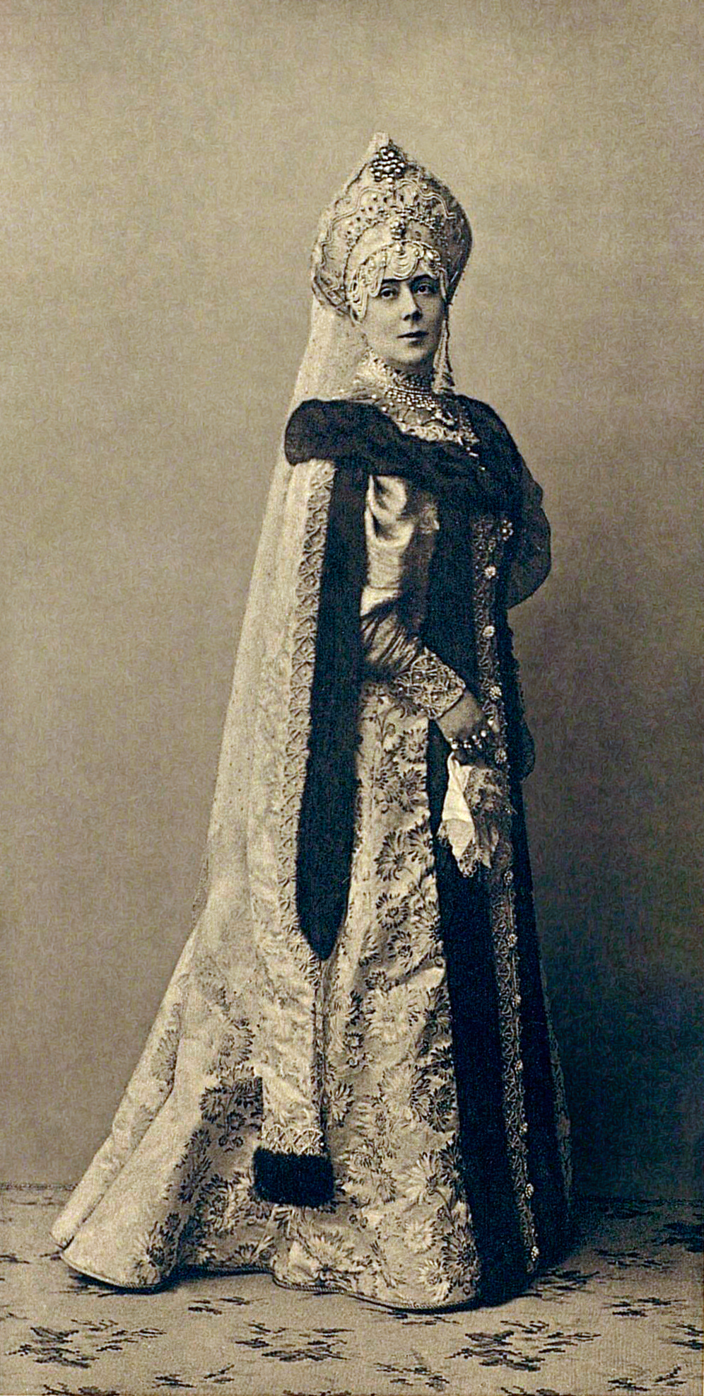 Capitolina Nikolaevna Makarova